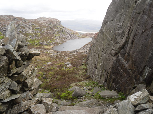 On the ascent of Rhinog Fawr Llyn Du is visible from a clear path that at this point runs alongside a dry stone wall among the rocks, heather and bilberry plants. In terrain such as this it is inadvisable to stray from the few paths that exist. But a clear one leads from here to the summit of Rhinog Fawr.